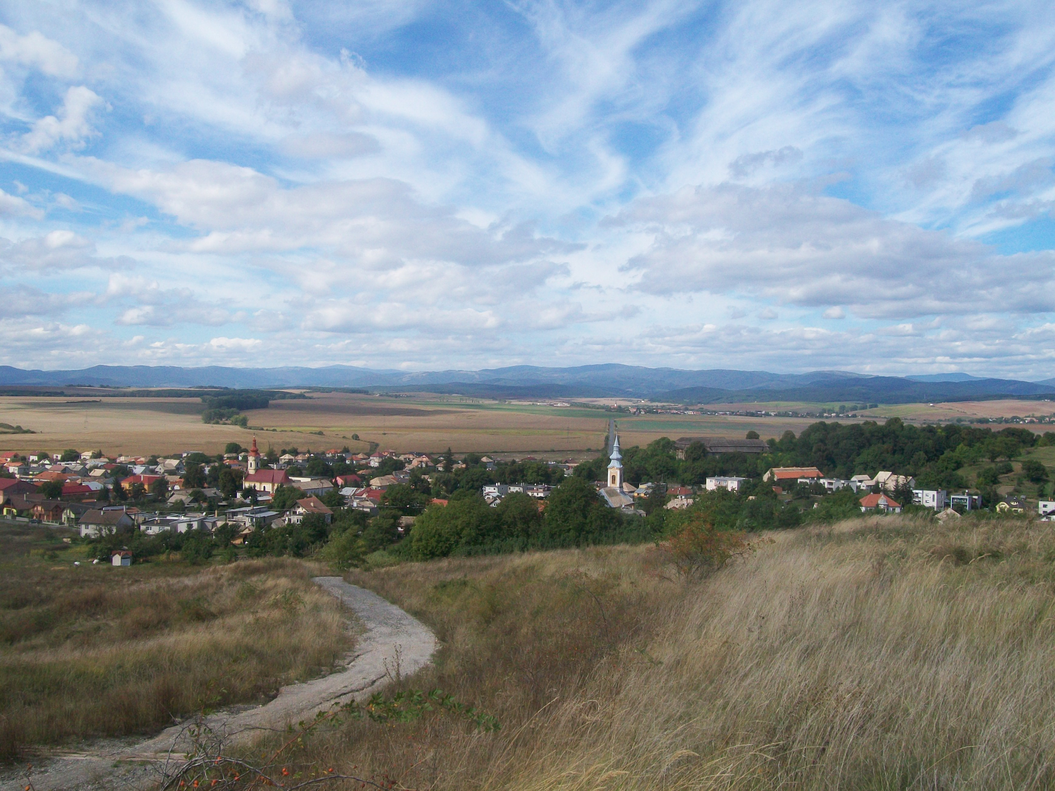 View of the village OžďanySlovenčina: Pohľad na obec Ožďany